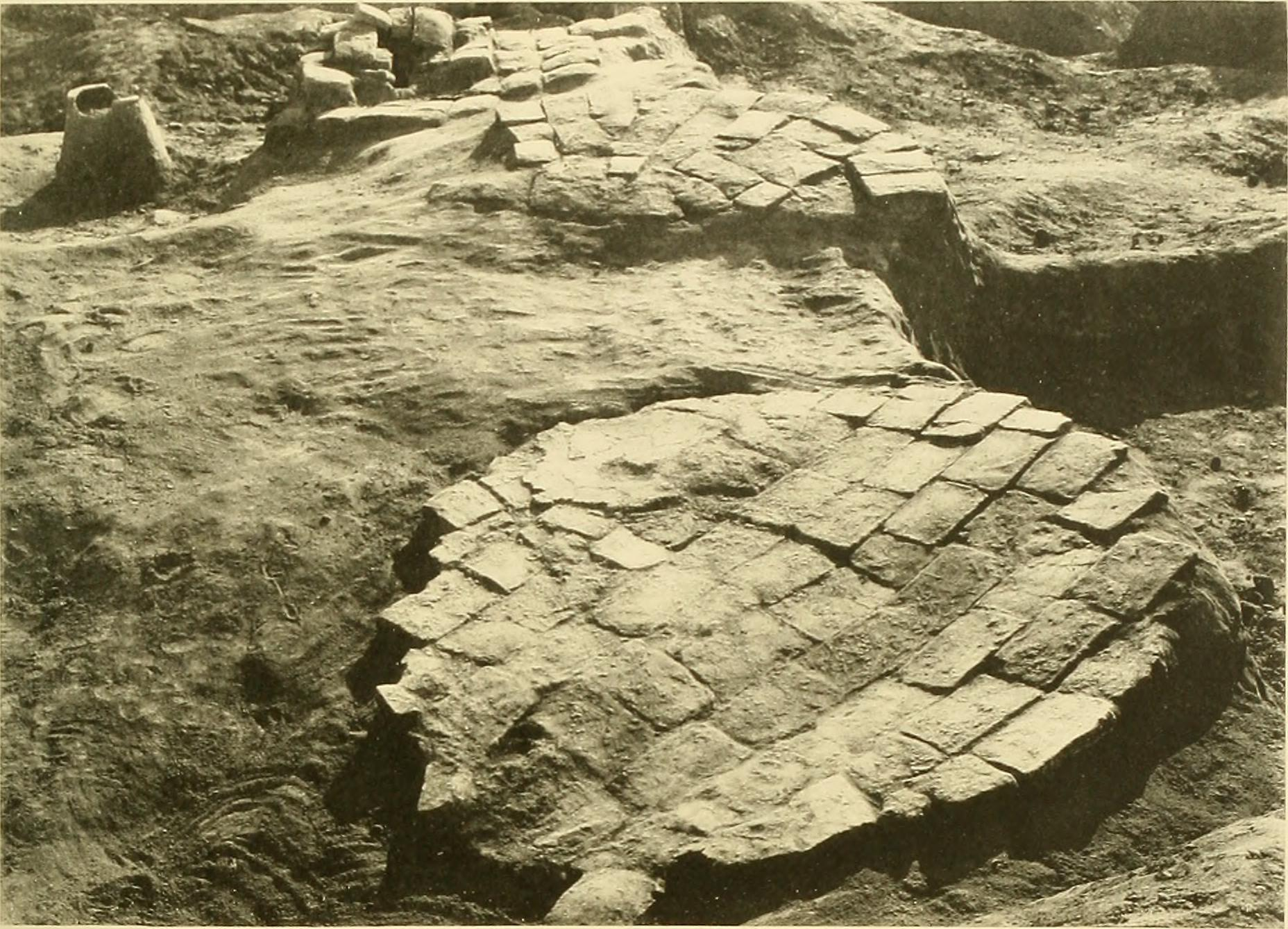 Title: Ur excavations Year: 1900 (1900s) Authors: Joint Expedition of the British Museum and of the Museum of the University of Pennsylvania to Mesopotamia Hall, H. R. (Harry Reginald), 1873-1930, ed Woolley, Leonard, Sir, 1880-1960 Legrain, Leon, 1878- ed Subjects: Publisher: (n.p.) Pub. for the Trustees of the Two Museums by the aid of a grant from the Carnegie Corporation of New York Text Appearing Before Image: PLATE 67 PG/1236 a. THE DOORWAY FROM CHAMBER B TO CHAMBER C: THE FALLEN STONEWORK AND, AT X , THE VERTICAL HOLLOW FOR THE WOODEN DOOR-FRAME «. p. 23s b. CHAMBER C, THE REMAINS OF THE STONE DOMEV. p. 234 PLATE 69 Text Appearing After Image: a. REMAINS OF CIRCULAR PAVEMENTS OF PLANO-CONVEX BRICKV. p. 37